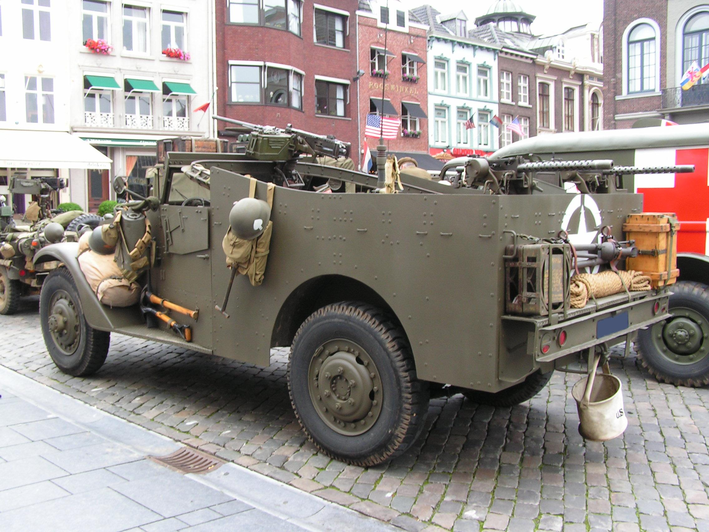 White M3A1 Scout Car at the 2007 Santa Fé Event in Roermond, the Netherlands.